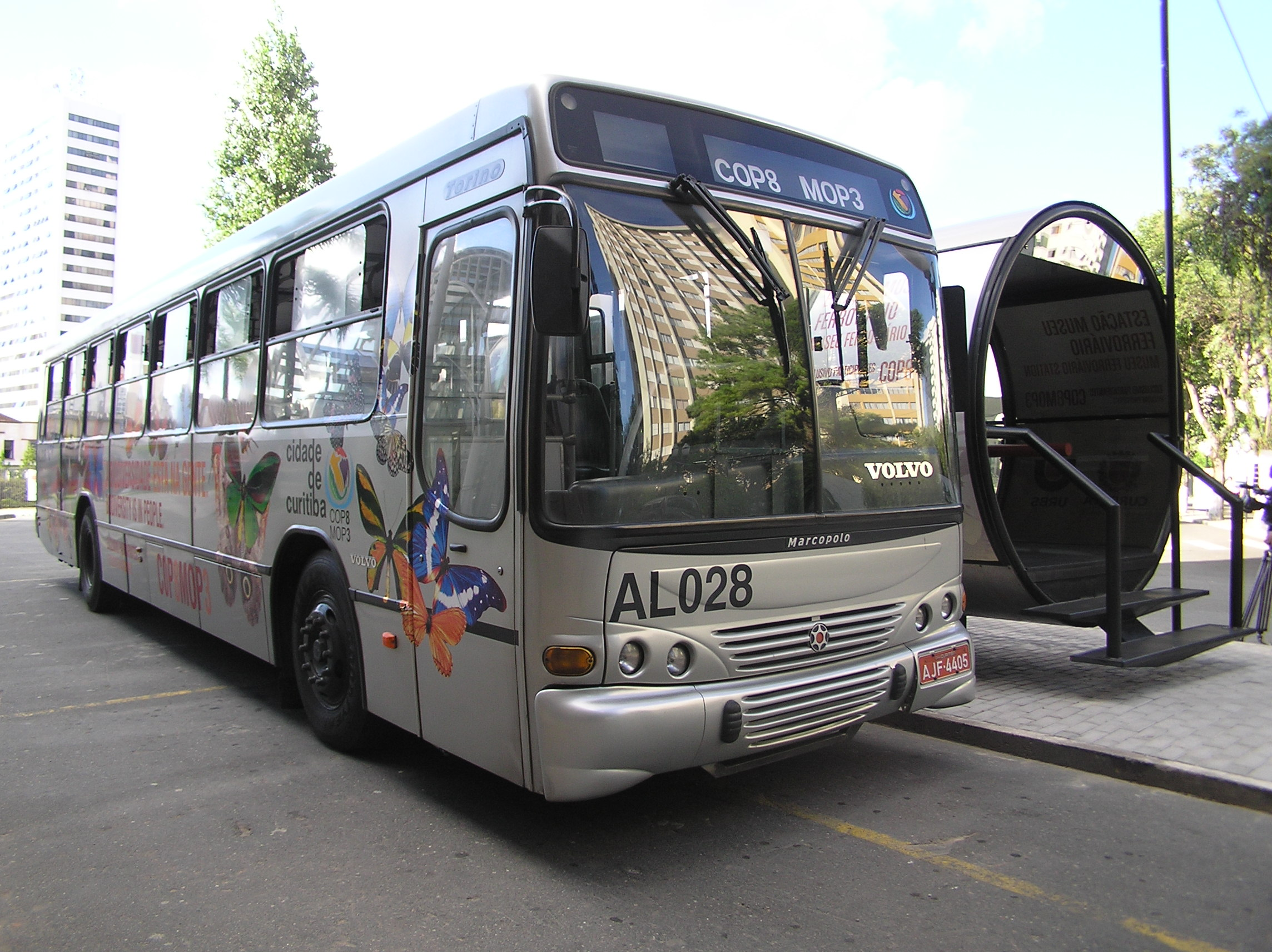 COP8MOP3: Marcopolo Torino bus (reg. AJF-4405, #AL028) with Volvo chassis in Curitiba, Paraná, Brazil.